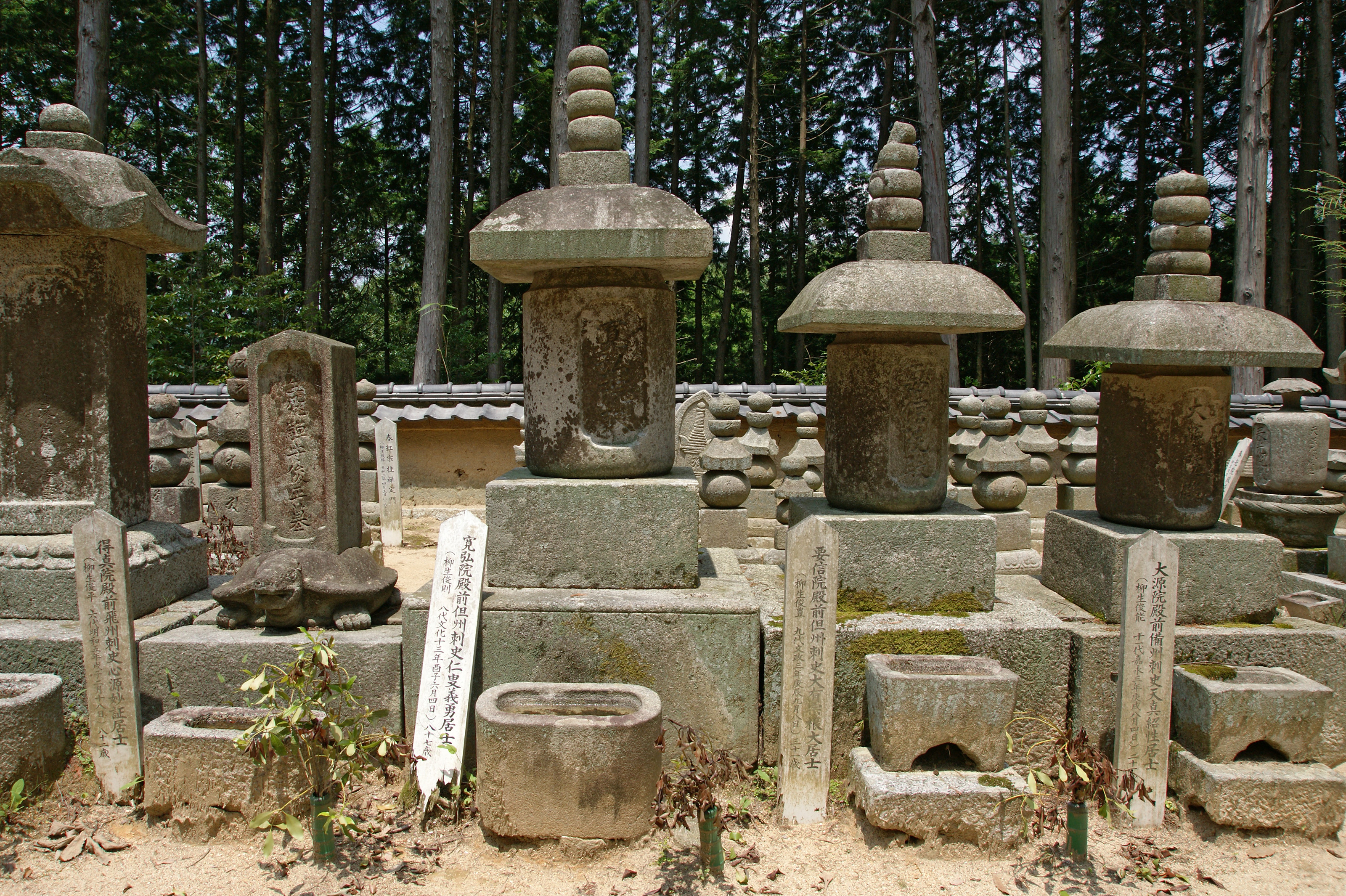 Hotokuji in Nara, Nara prefecture, Japan